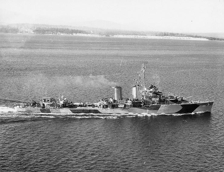 The U.S. Navy destroyer USS Hull (DD-350) underway in the vicinity of the Puget Sound Navy Yard, Washington (USA), on 10 October 1944. She is wearing Camouflage Measure 31, Design 6D.